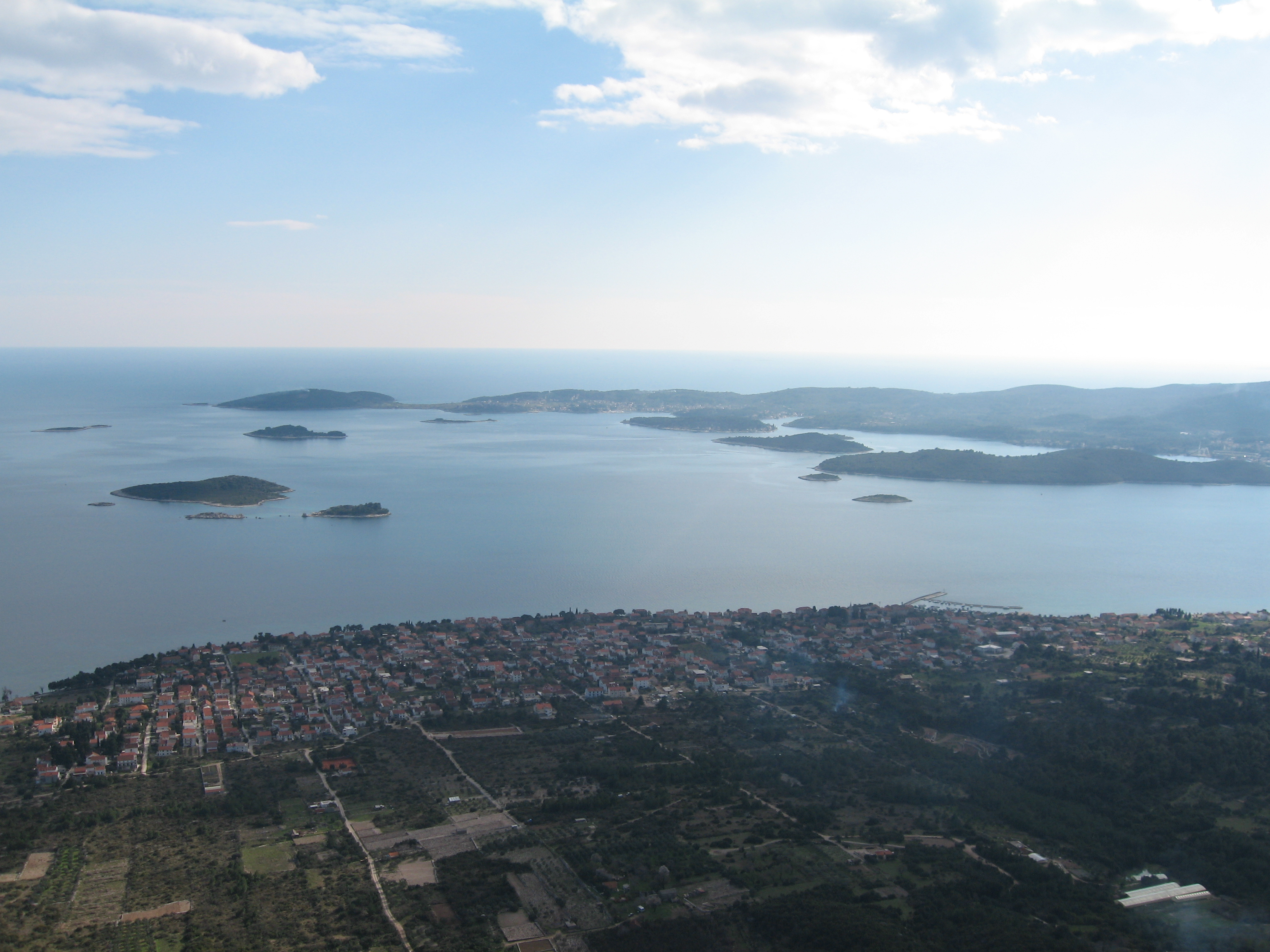 Vižanica hill close to Orebić,Pelješac